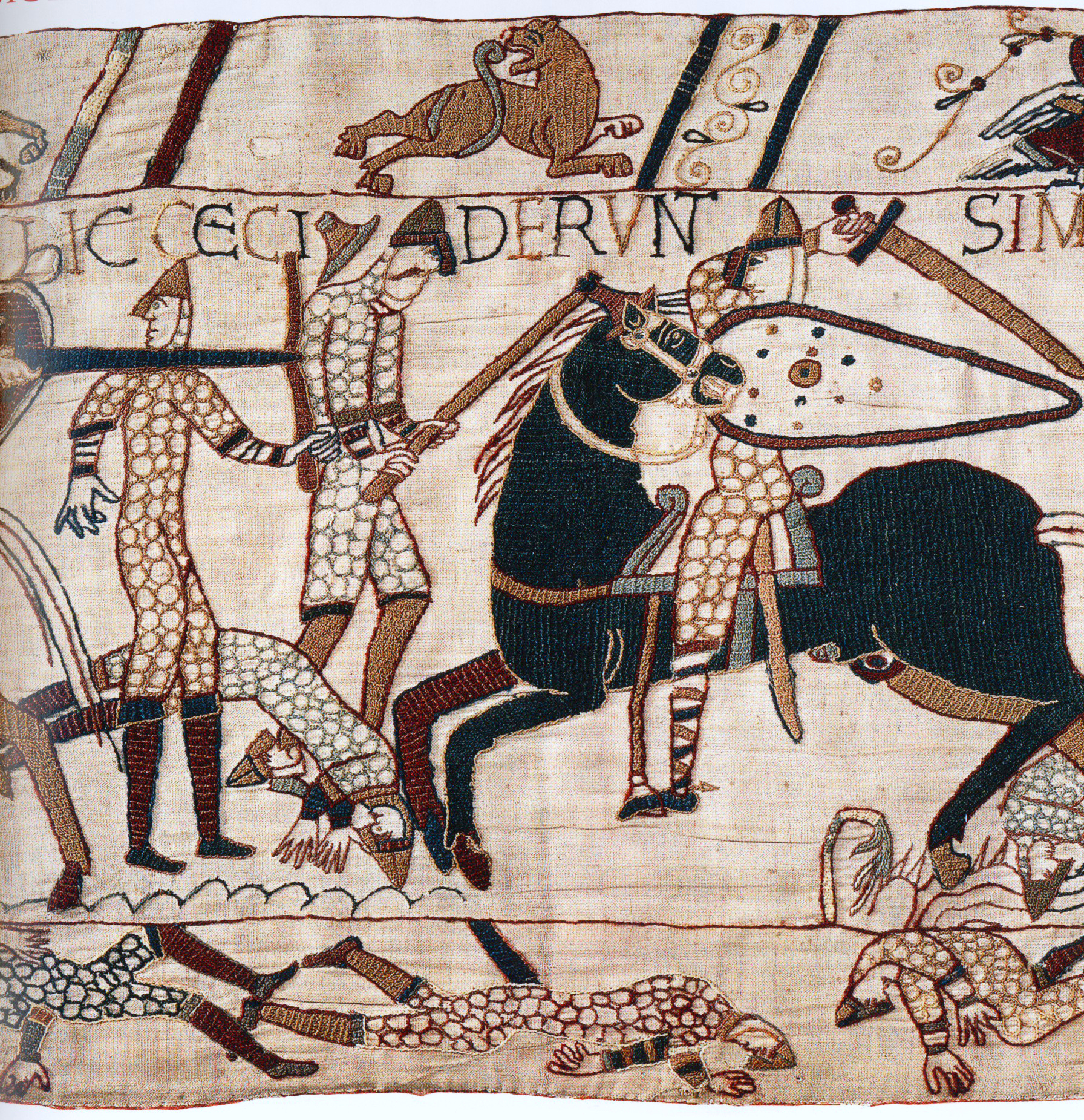 Scene 53 of the Bayeux Tapestry. This depicts mounted Normans attacking infantry Anglo-Saxons.